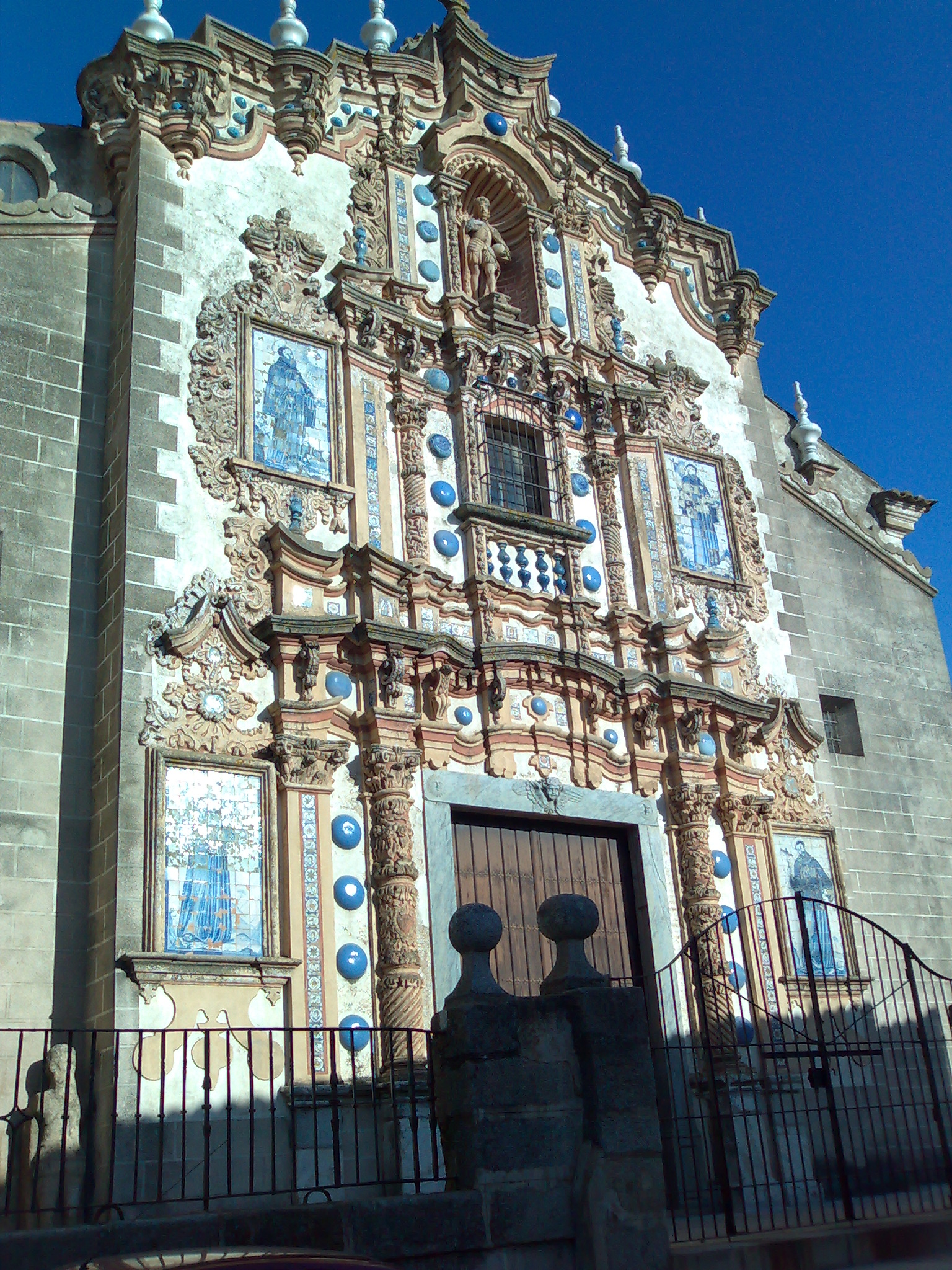 Jerez de los Caballeros